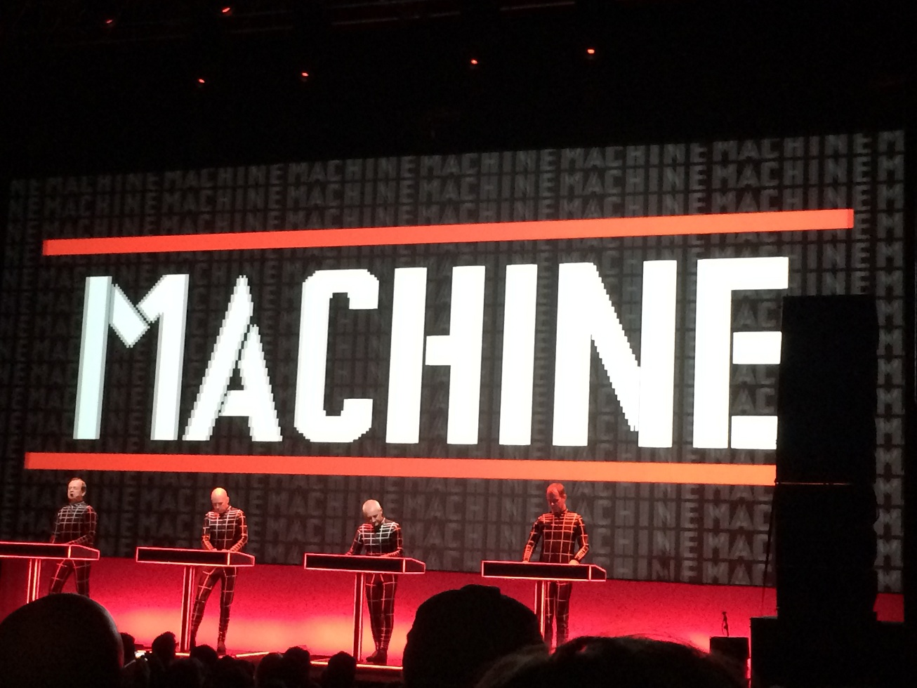 Kraftwerk performing at the Riviera Theatre in Chicago on March 27, 2014.